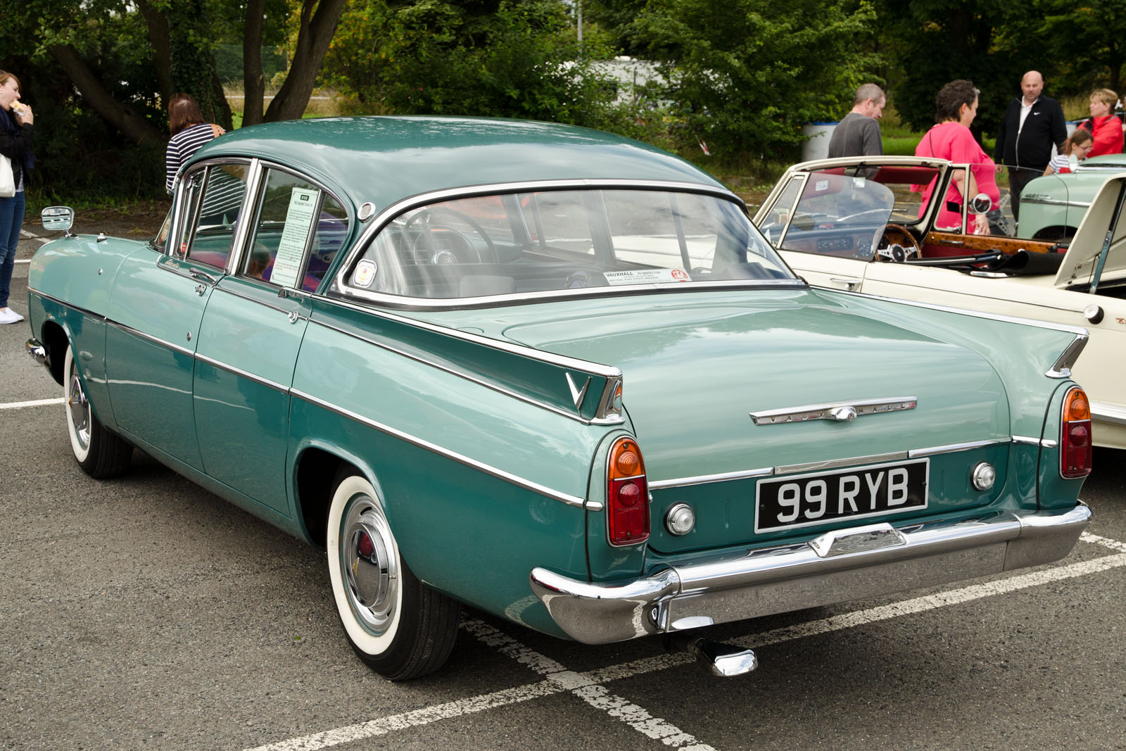 North Cheshire Classic Car Club at Ellsmere Port 11/08/2013